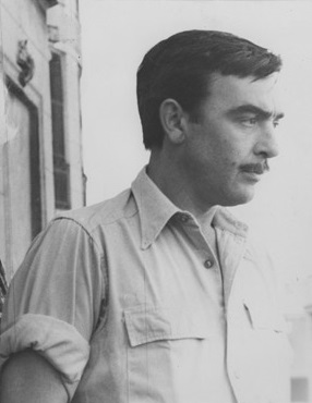 Fernando Siro-actor argentino